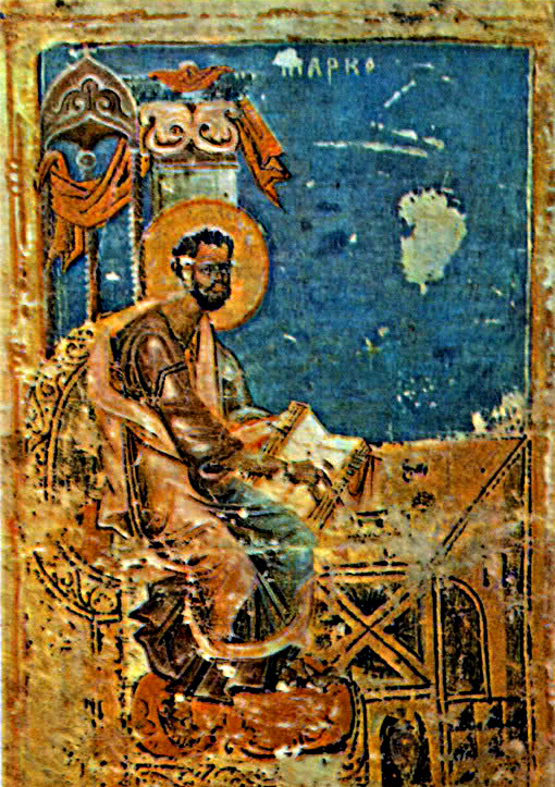 miniature of St.Mark from XII-XIII century Halycian Gospel